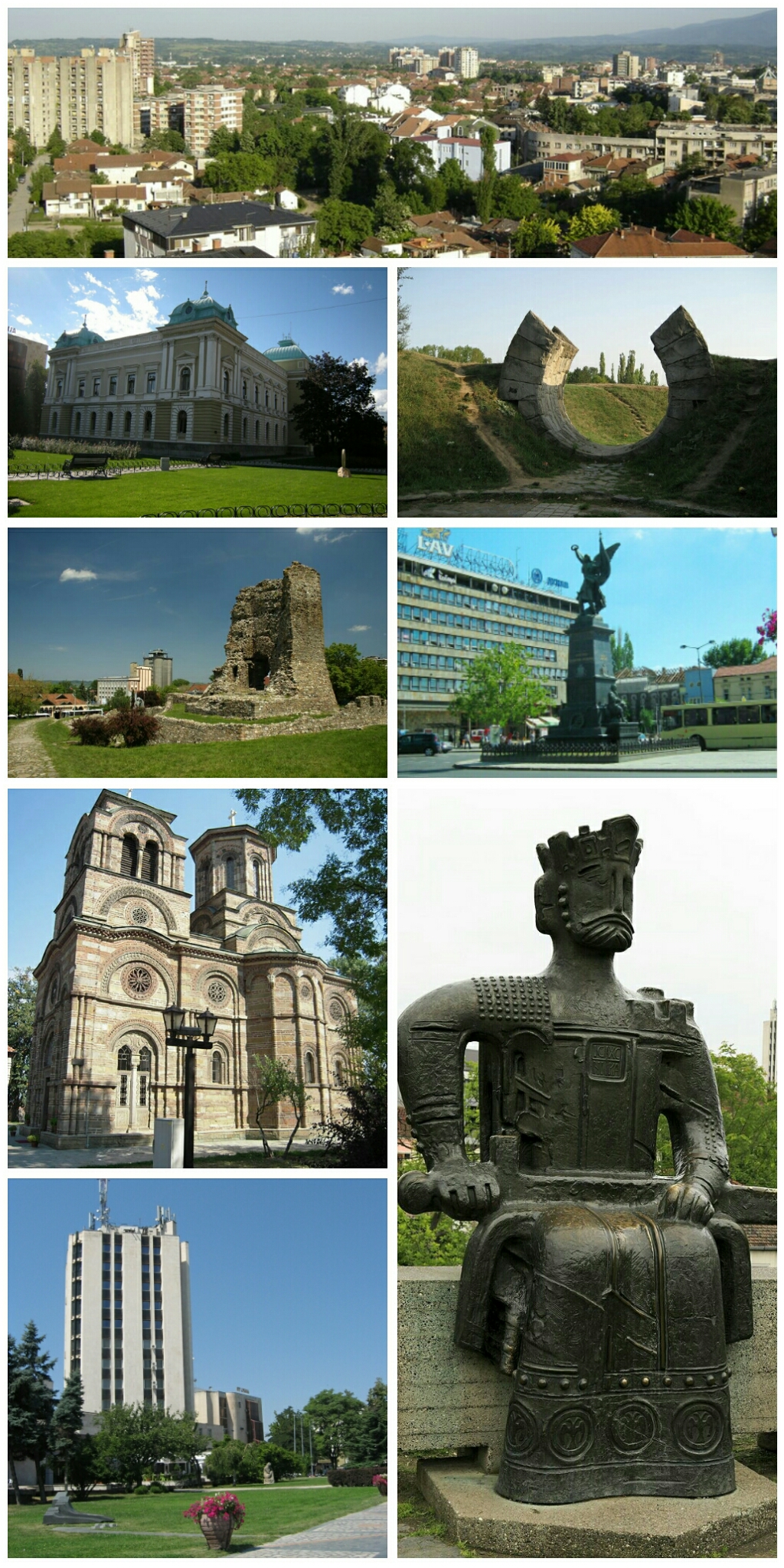 Kruševac - photomontage (Panorama of Kruševac, Town Hall, Slobodište Memorial Complex, Kruševac Fortress, The Kosovo Heroes monument, Lazarica Church, Rubin Hotel, Lazar Hrebeljanović's statue)